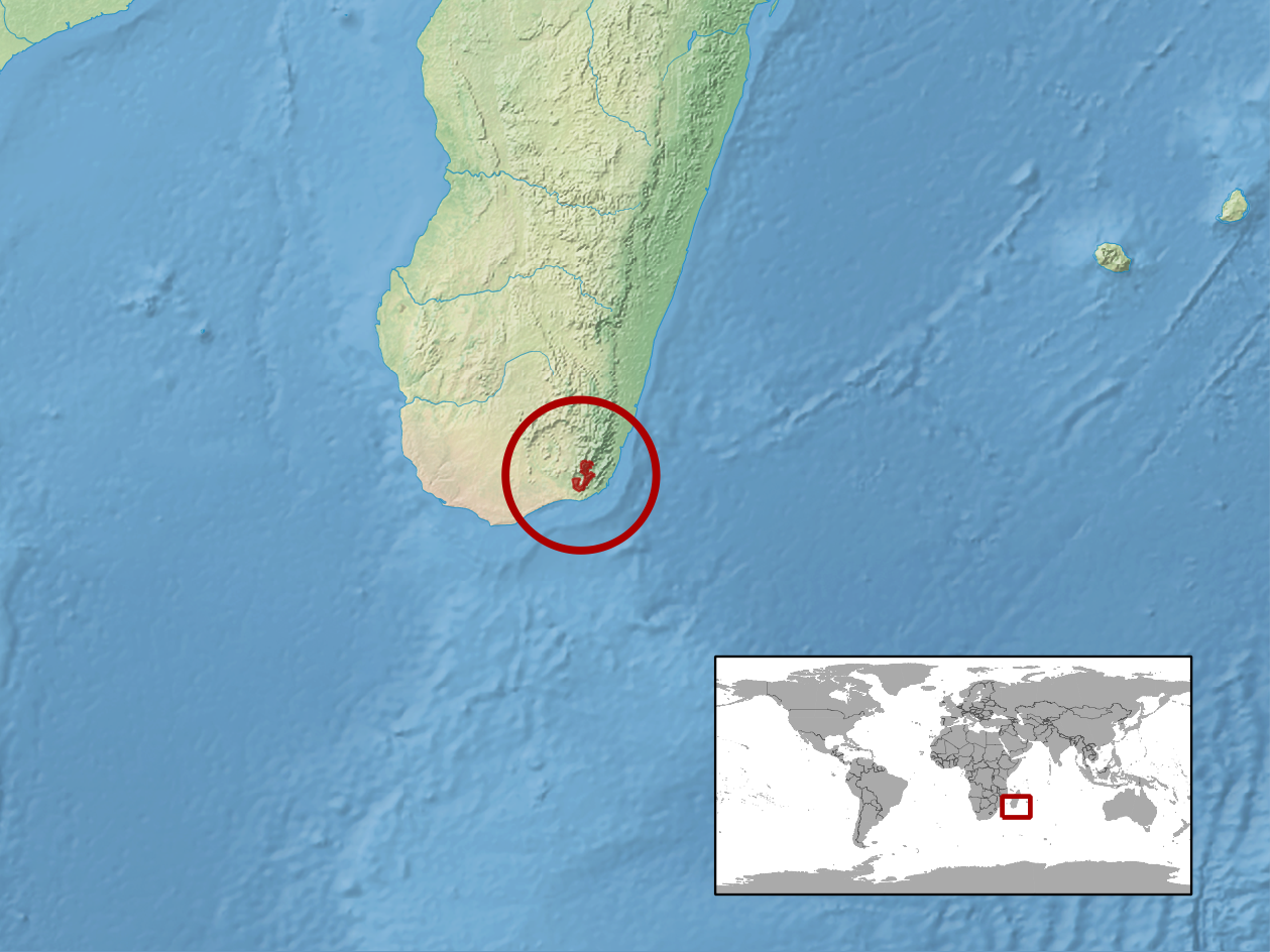 geographic distribution of Phelsuma malamakibo (Native: Madagascar)